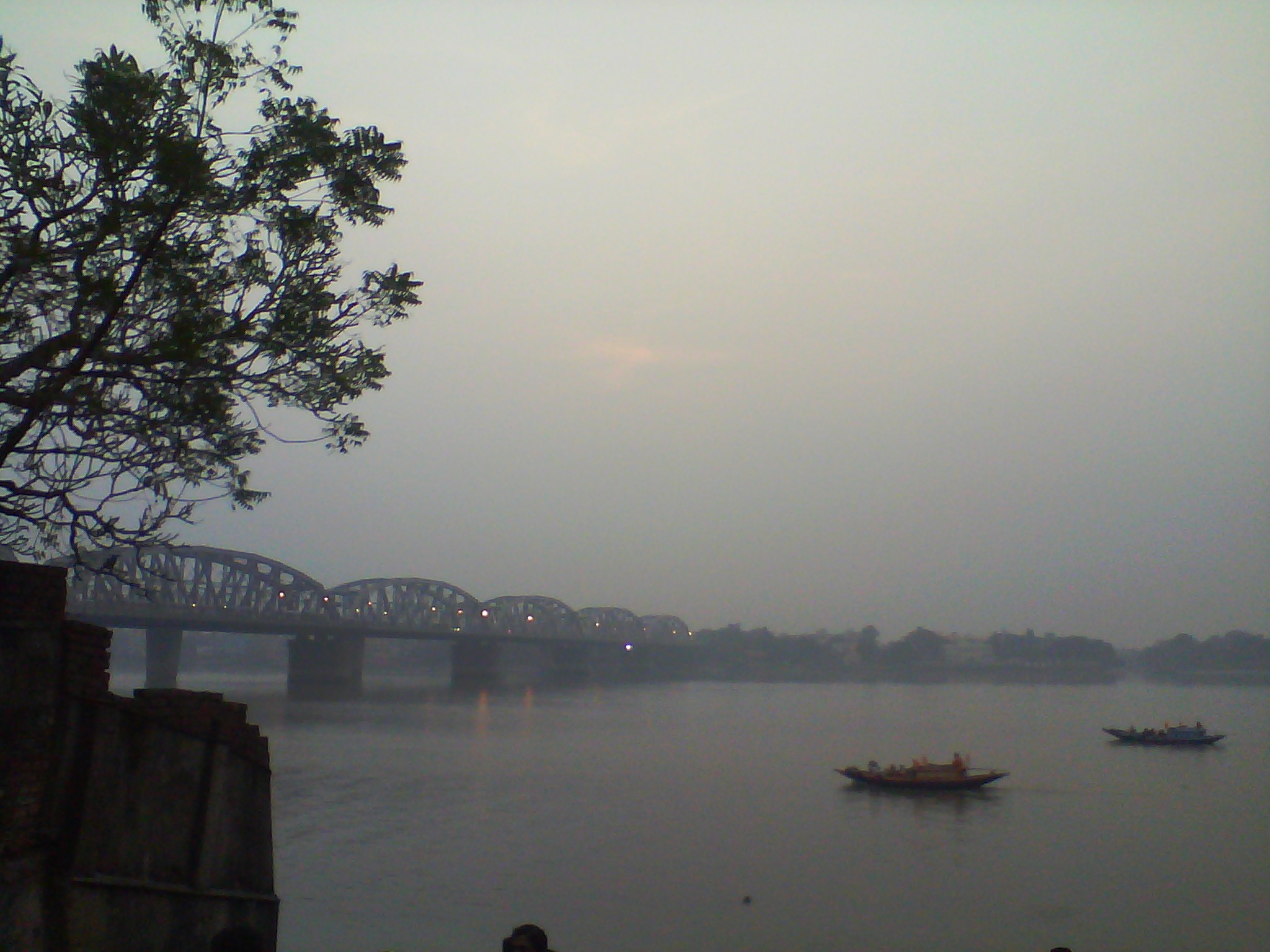 Bally Bridge From the bank River Ganga.